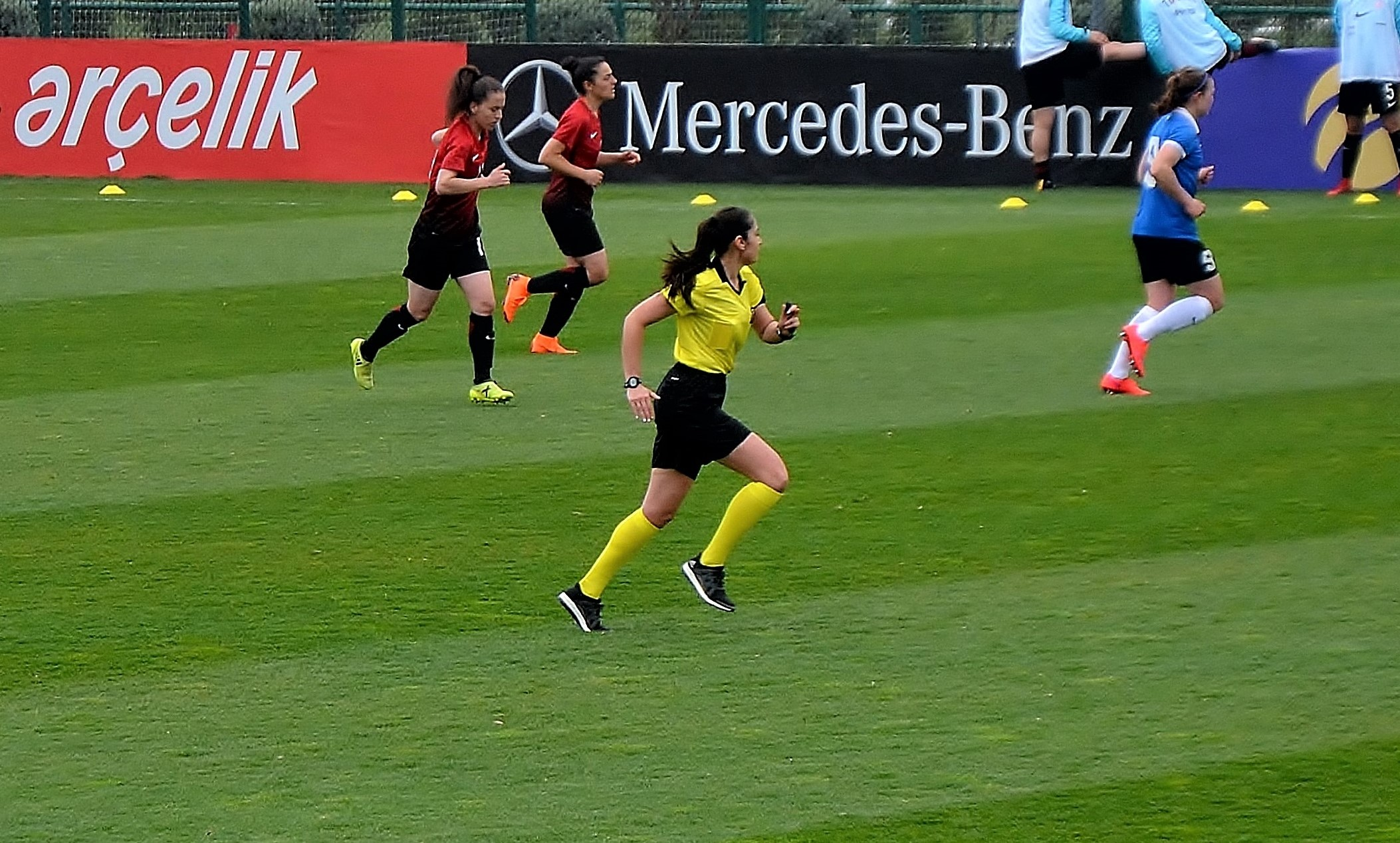 Nesliahn Muratdağı officating the friendly match Turkey women's vs Estonia at TFF Riva Facility on 7 April 2018.